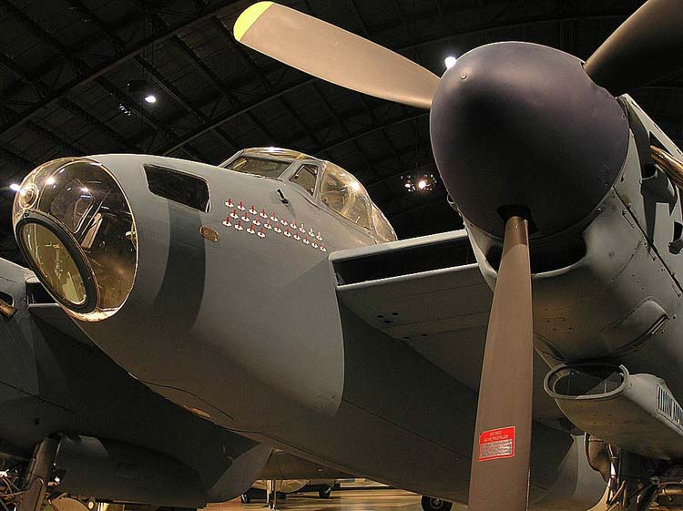 De Haviland D-98 Mosquito Mk. 35 restored to Mk XVI version. Painted as a plane of 653 Bomb Squadron. National Museum of United States Air Force, Dayton, Ohio, USA.